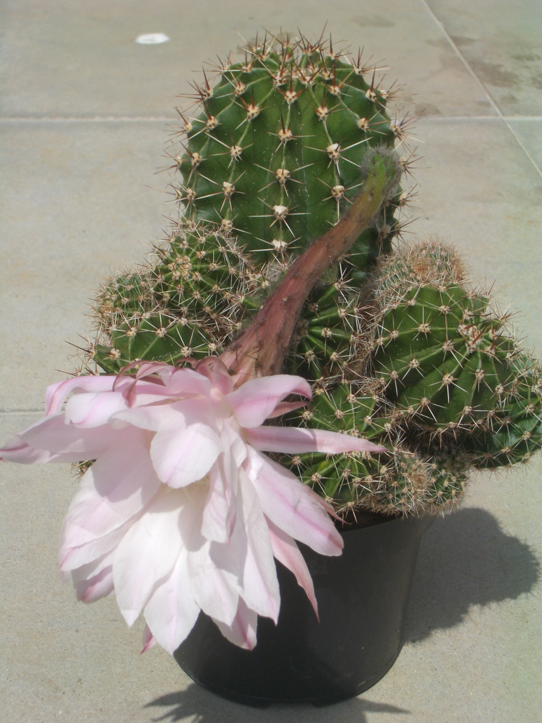 Echinopsis oxygona